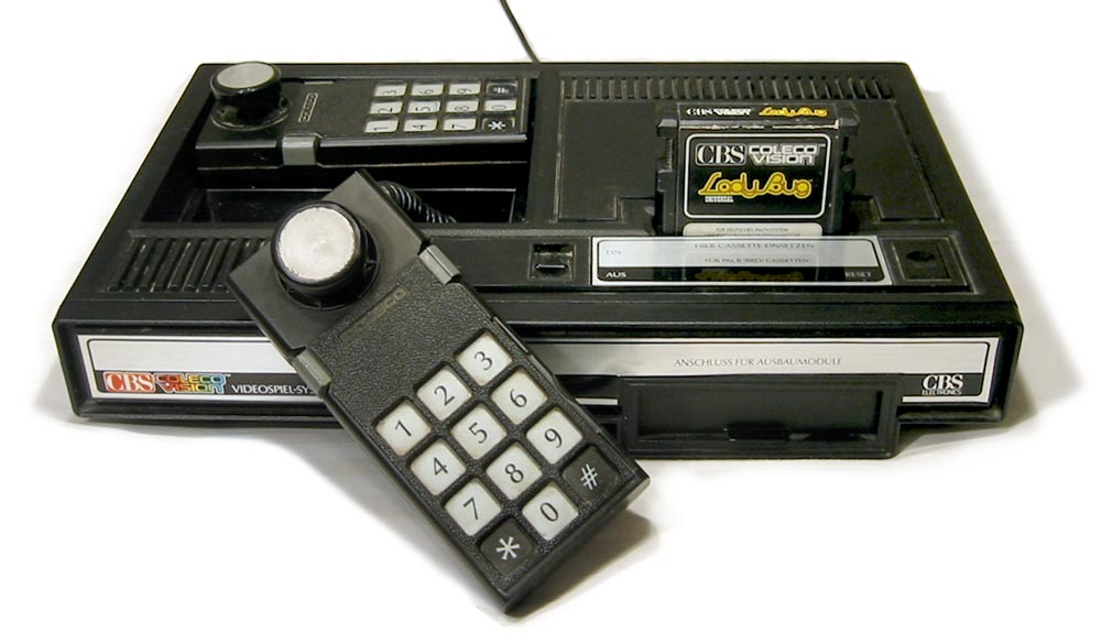 Photo of the ColecoVision video game console.